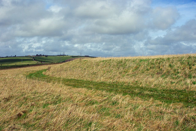 Earthworks, Thundersbarrow Hill